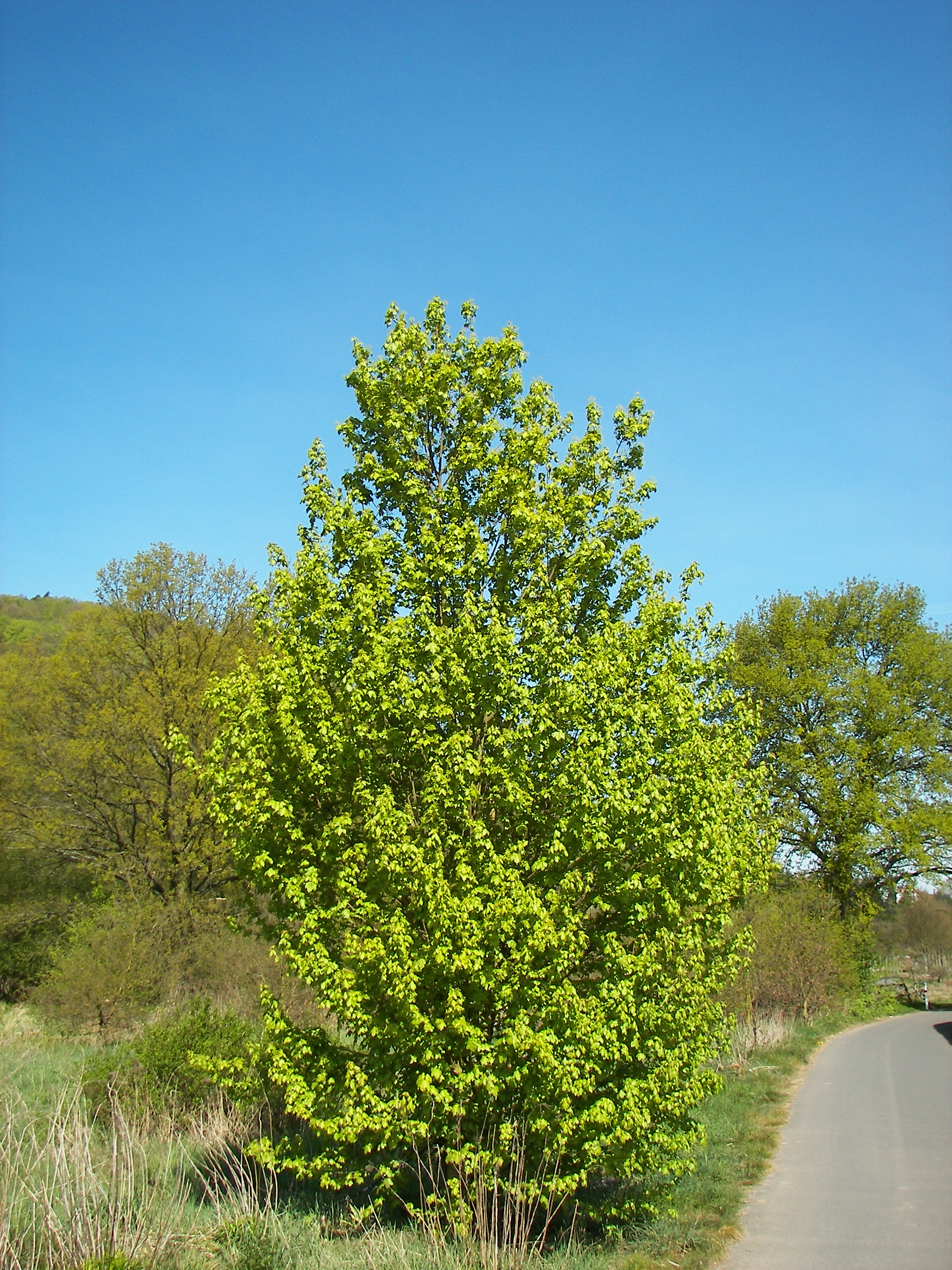 Field Maple (Acer campestre), Location: Marburg, Hesse, Germany